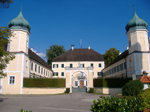 Stepperg castle: Central wing with 19th century side wings